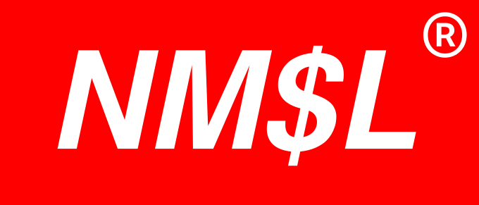 NM$L logo inspired by Supreme.